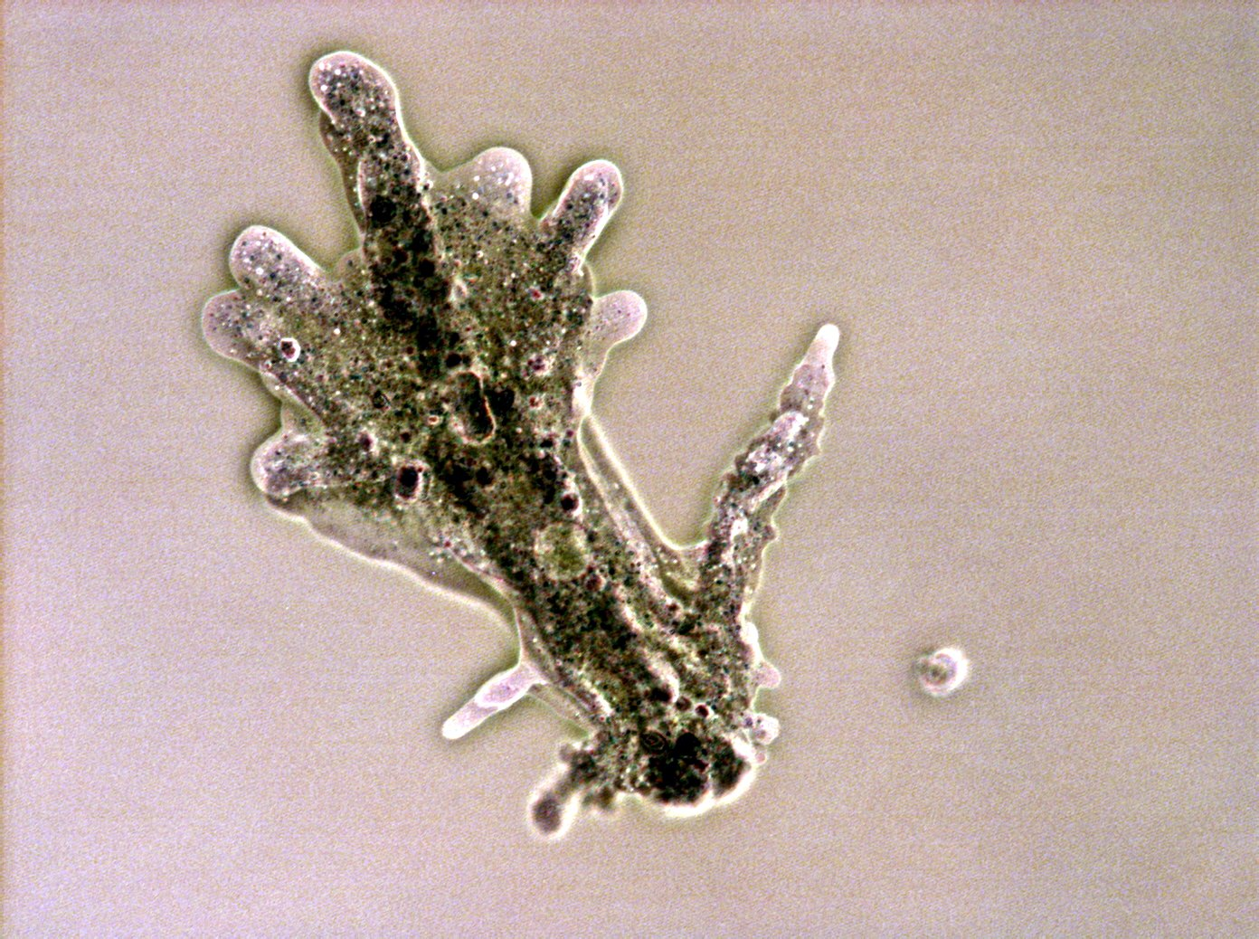 Amoeba proteus, visible are the contractile vacuole (circular) and the nucleus (somewhat dumbbell-shaped)